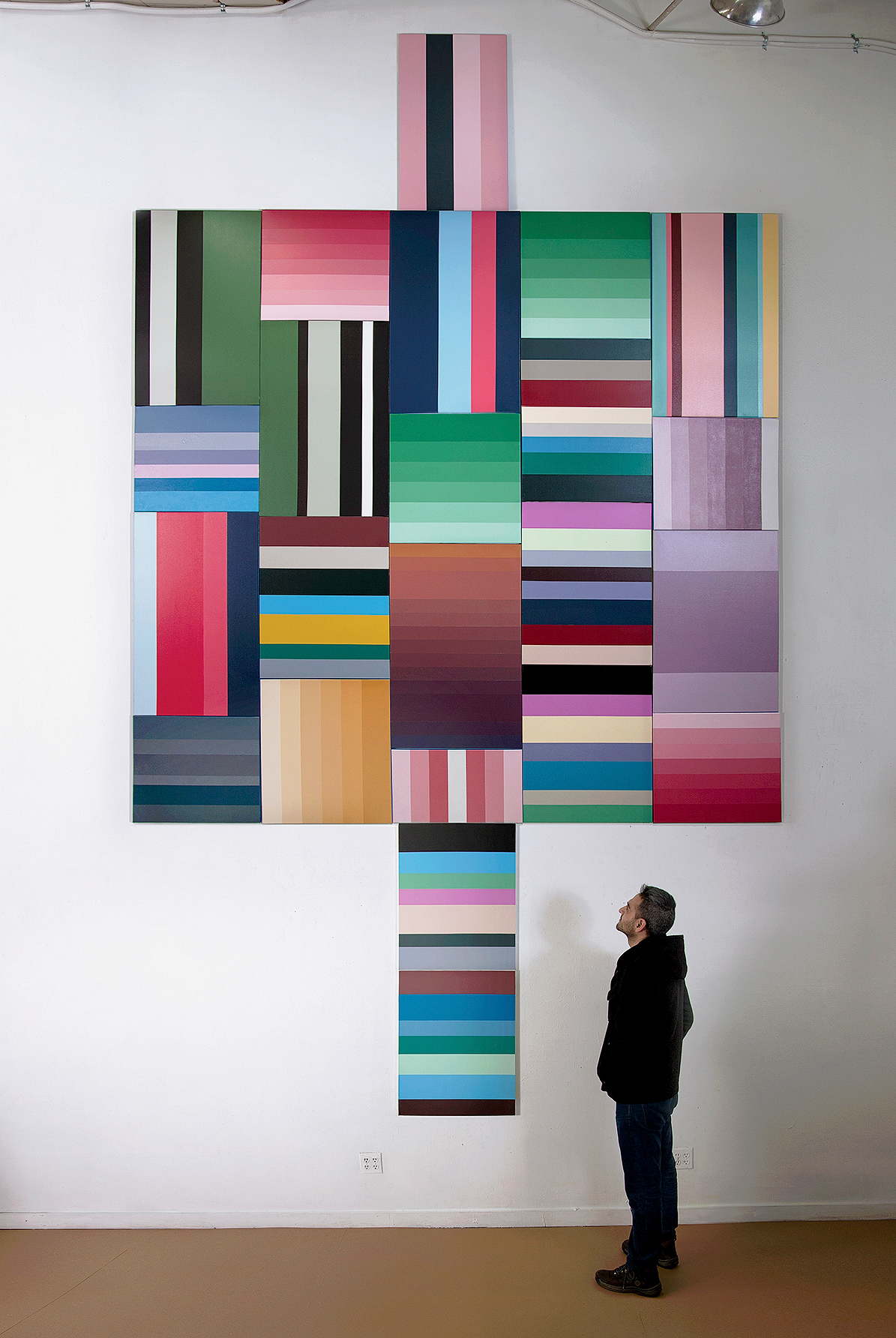 Artwork Data center